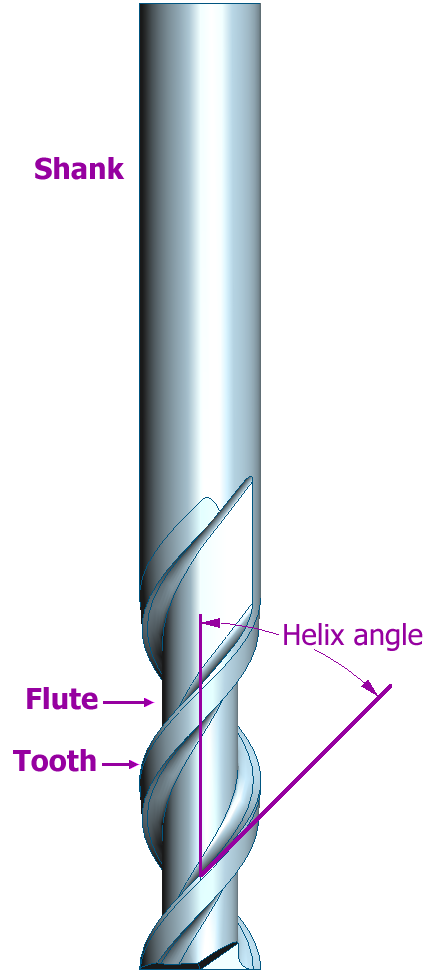 Diagram of an End Mill cutting tool, with labels